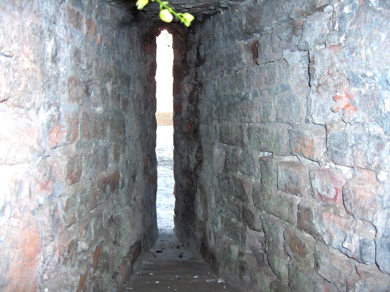 view through a loophole of a caponnière - Fort Napoleon - Ostend, Belgium